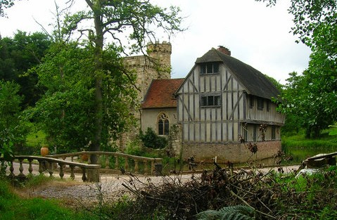 Braylsham Castle A closer view than Braylsham Castle - 505391 which also contains a link about the construction of the building.